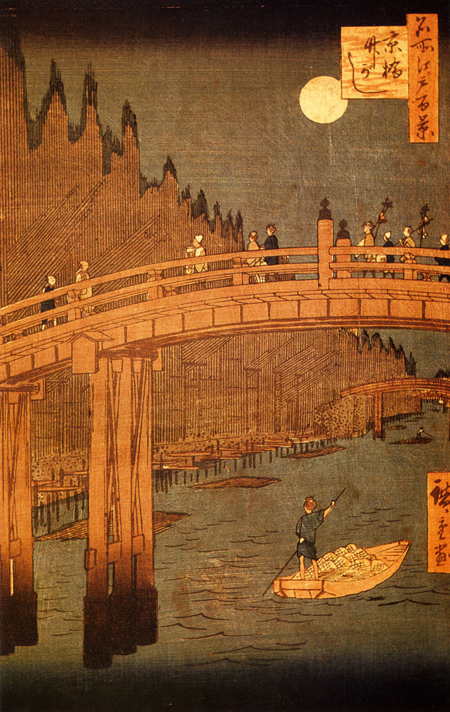 Part of the series One Hundred Famous Views of Edo, no. 076, part 3: Autumn.